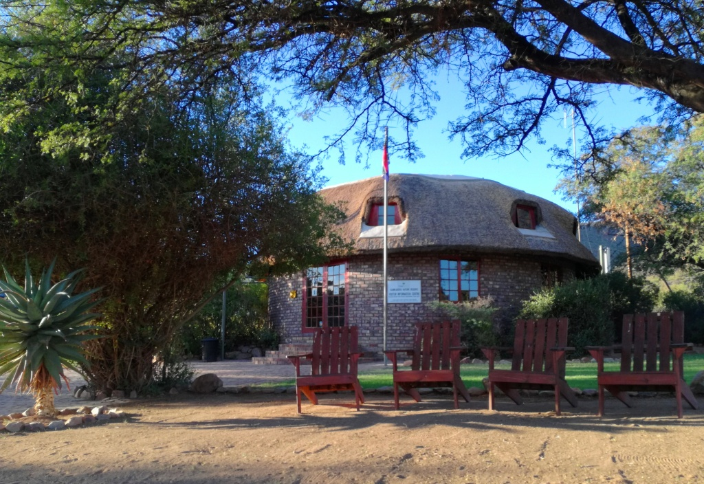 Gamkaberg Nature Reserve visitors centre in the early morning